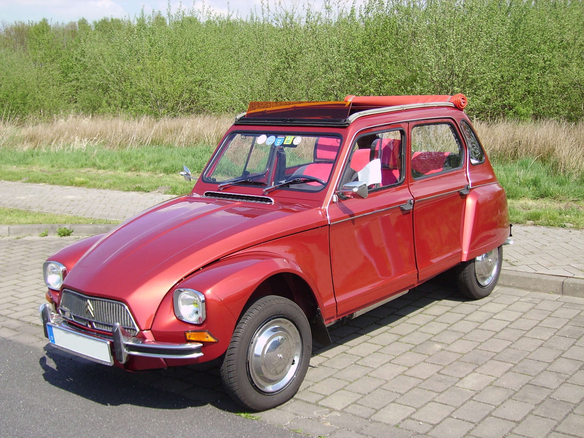 A Citroën Dyane 6